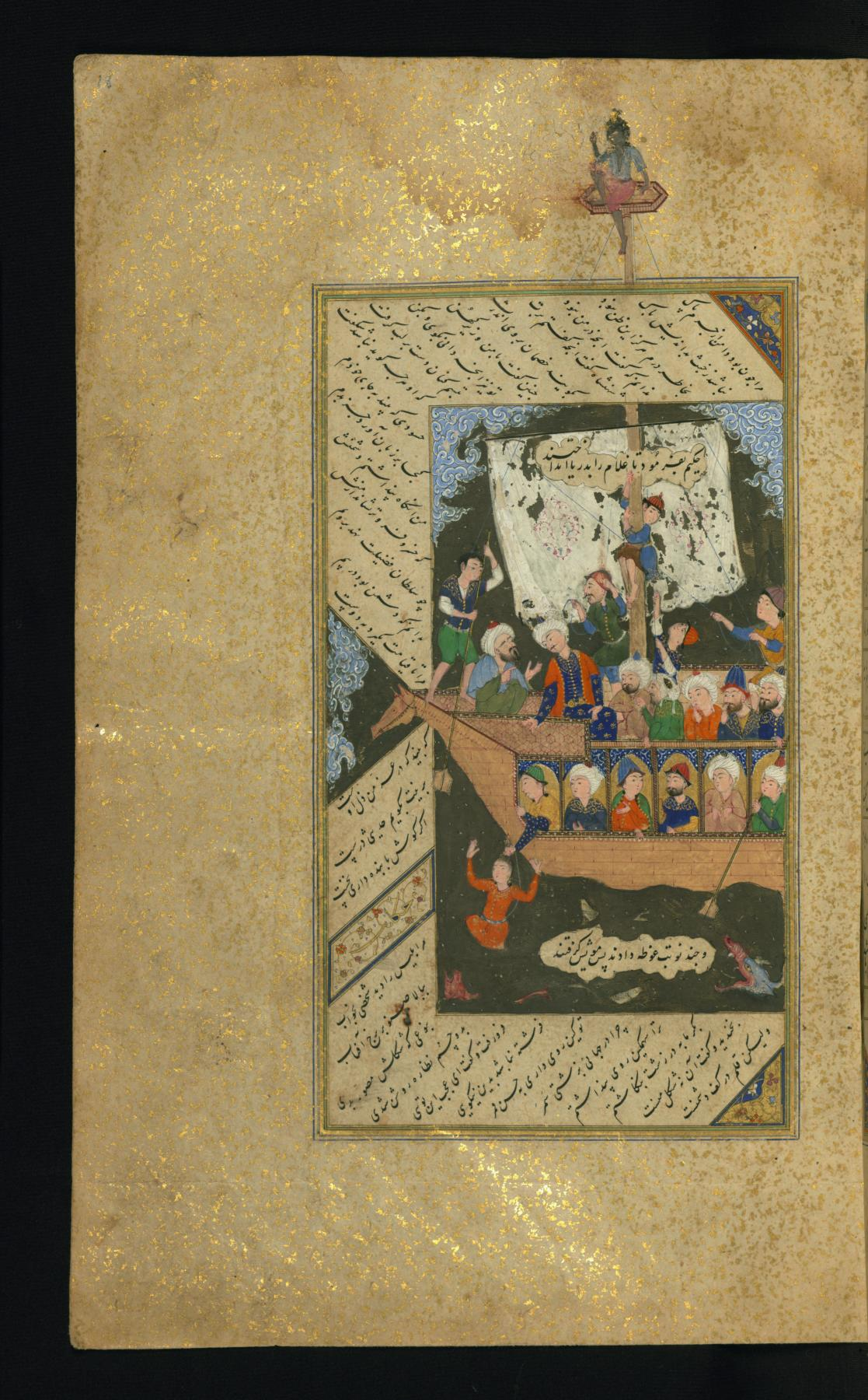 This folio from Walters manuscript W.618 depicts a maid dipped in the sea as a cure for her fear of water.